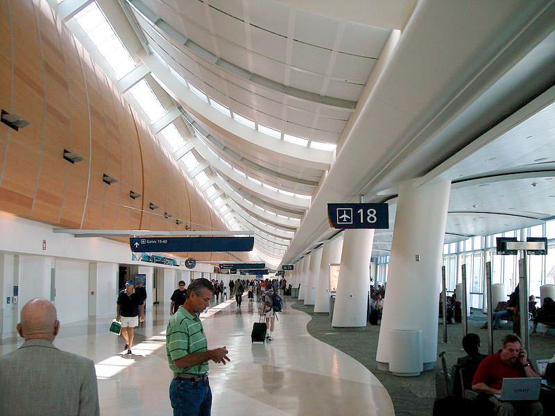 Departure hall B in Mineta San Jose International Airport. Taken by Mgw89 on 24 August during trip from San Jose to Seattle.